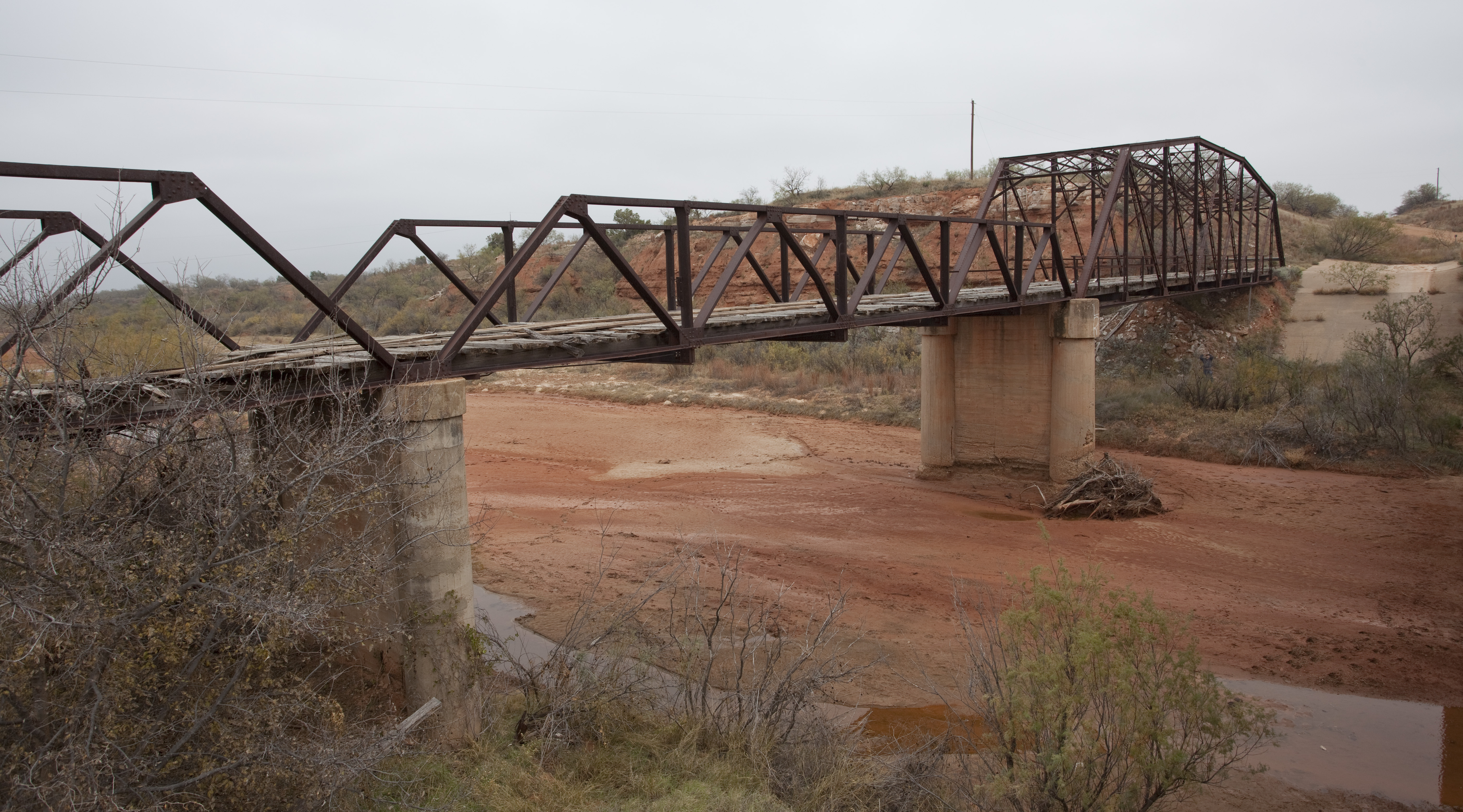 The Oriana Camelback Truss Bridge over the Salt Fork Brazos River just to the southwest of the town of Peacock in Stonewall County, Texas. It is named for the ghost town of Oriana, located to the west.